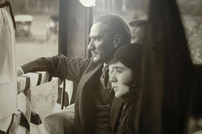 Mustafa Kemal (Atatürk) and his adopted daughter Rukiye (Erkin) at a ceremony in Ankara.